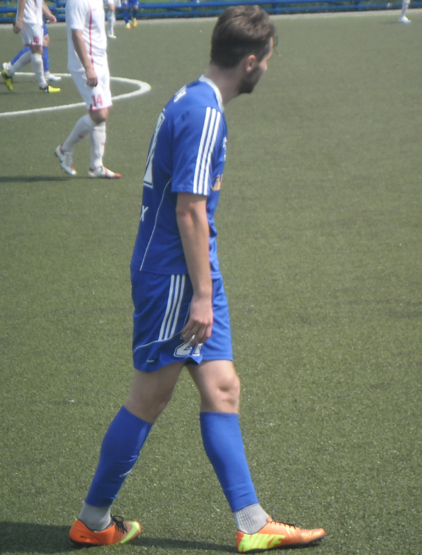 Aliaksandar Kuhan in match SKVIC - Dniapro